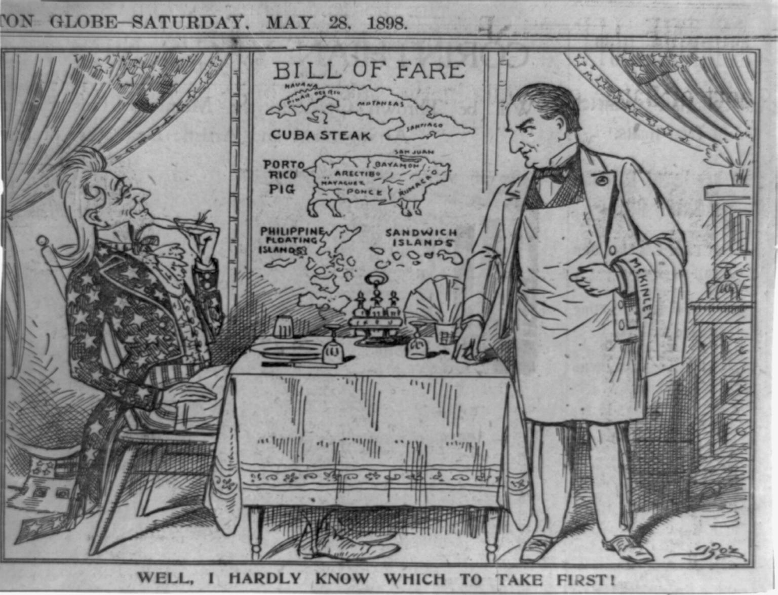 A cartoon of Uncle Sam seated in restaurant looking at the bill of fare containing "Cuba steak," "Porto Rico pig," the "Philippine Islands" and the "Sandwich Islands" (Hawaii) and saying "Well, I hardly know which to take first!" to the waiter, president William McKinley. From the May 28, 1898 issue of the Boston Globe.